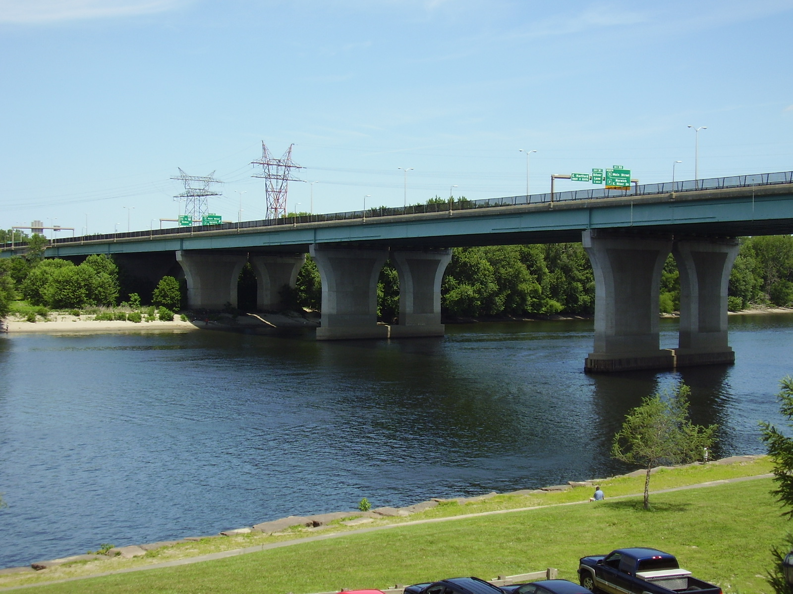 Photograph taken by User:Polaron on 2007-06-24 from the Charter Oak Landing in Hartford, Connecticut. Released under GFDL.